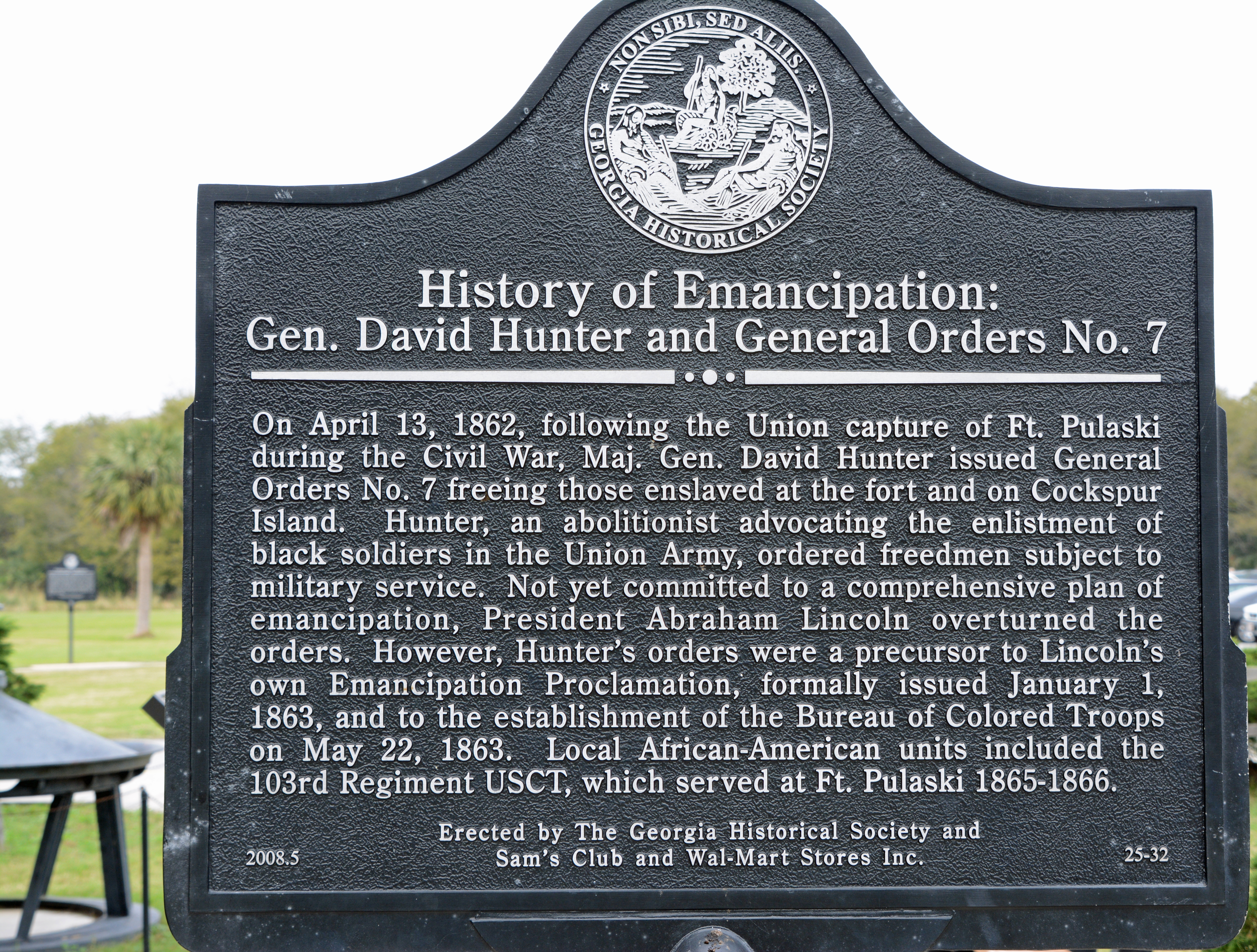 Historical marker at Fort Pulaski, Georgia, US; about General Orders No. 7 for emancipation, which was reversed by President Lincoln. The original cap of the Cockspur Island Lighthouse is seen in the bottom left corner. The marker was erected by the Georgia Historical Society in 2008.